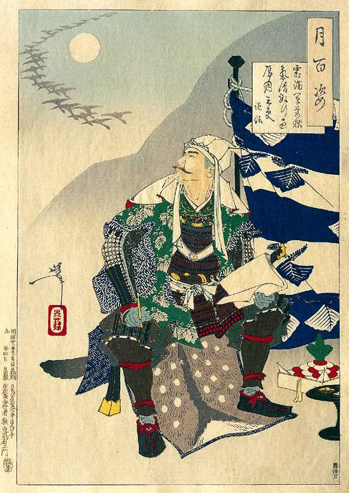 Kenshin watching geese in the moonlight